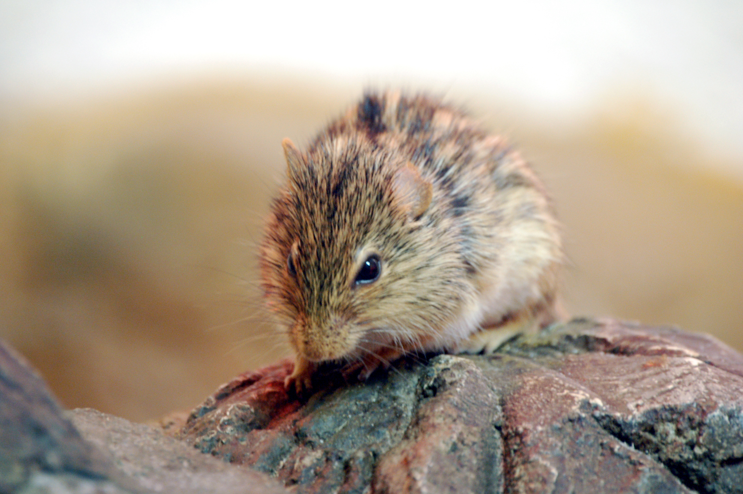 Barbary Striped Grass Mouse